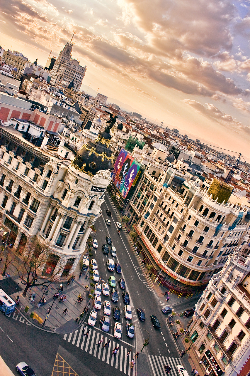 Partial view of Centro district in Madrid (Spain) from Círculo de Bellas Artes' flat roof. Foreground: Metropolis Building and Gran Vía (avenue).